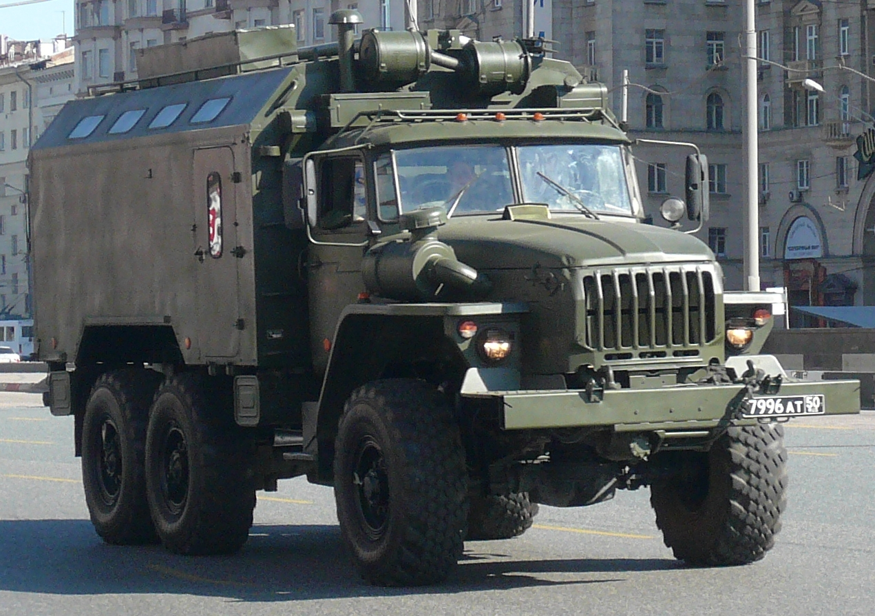 Ural-4320. Returns from a parade on May 9th, 2011; Moscow.